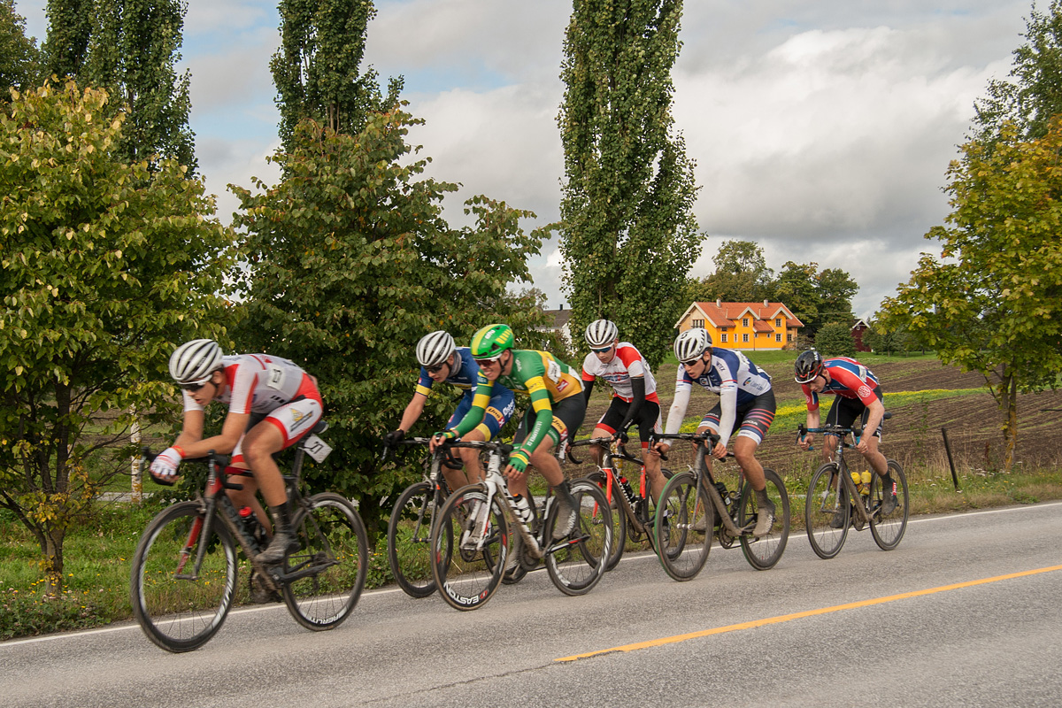 Riders in the Men Junior peloton of the 2017 Gylne Gutuer.